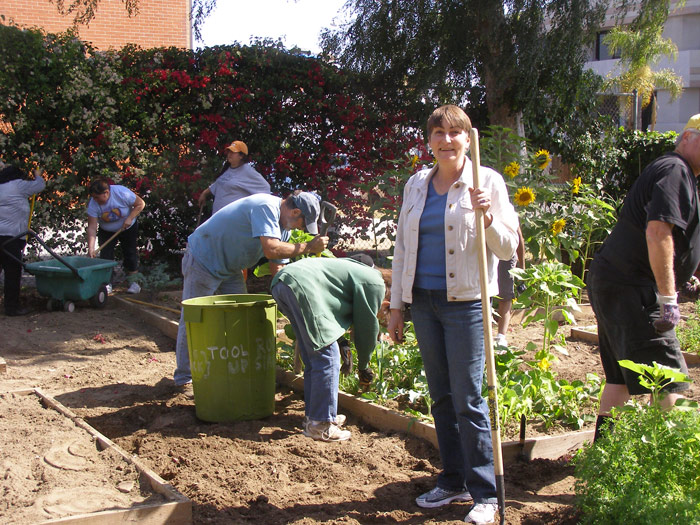 Other St Luke's parishioners working in the garden